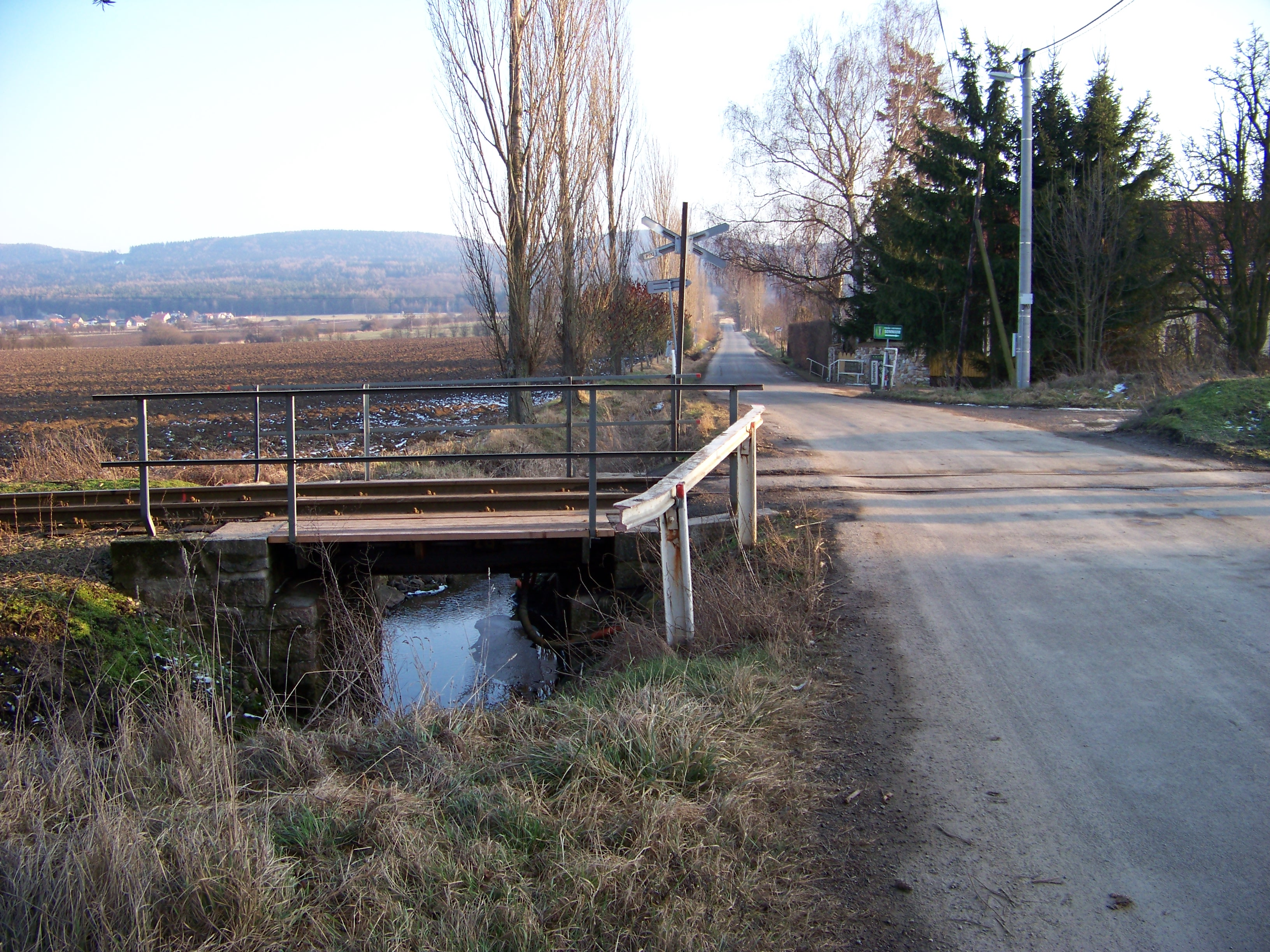 Všeradice, Beroun District, Central Bohemian Region, Czech Republic. Road III/11537 and Svinařský potok near the train stop.